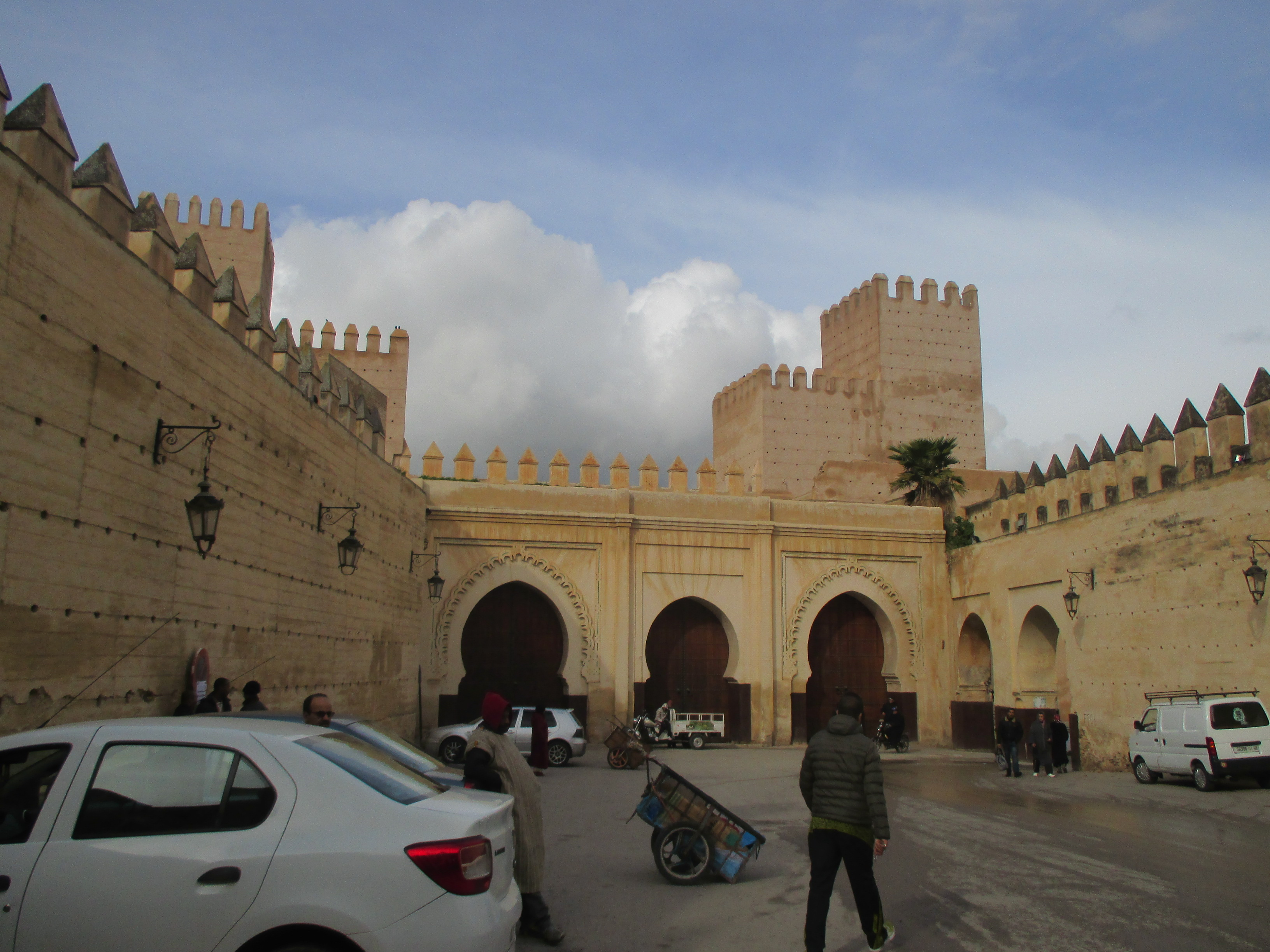 Inner walls of Fez Jedid.